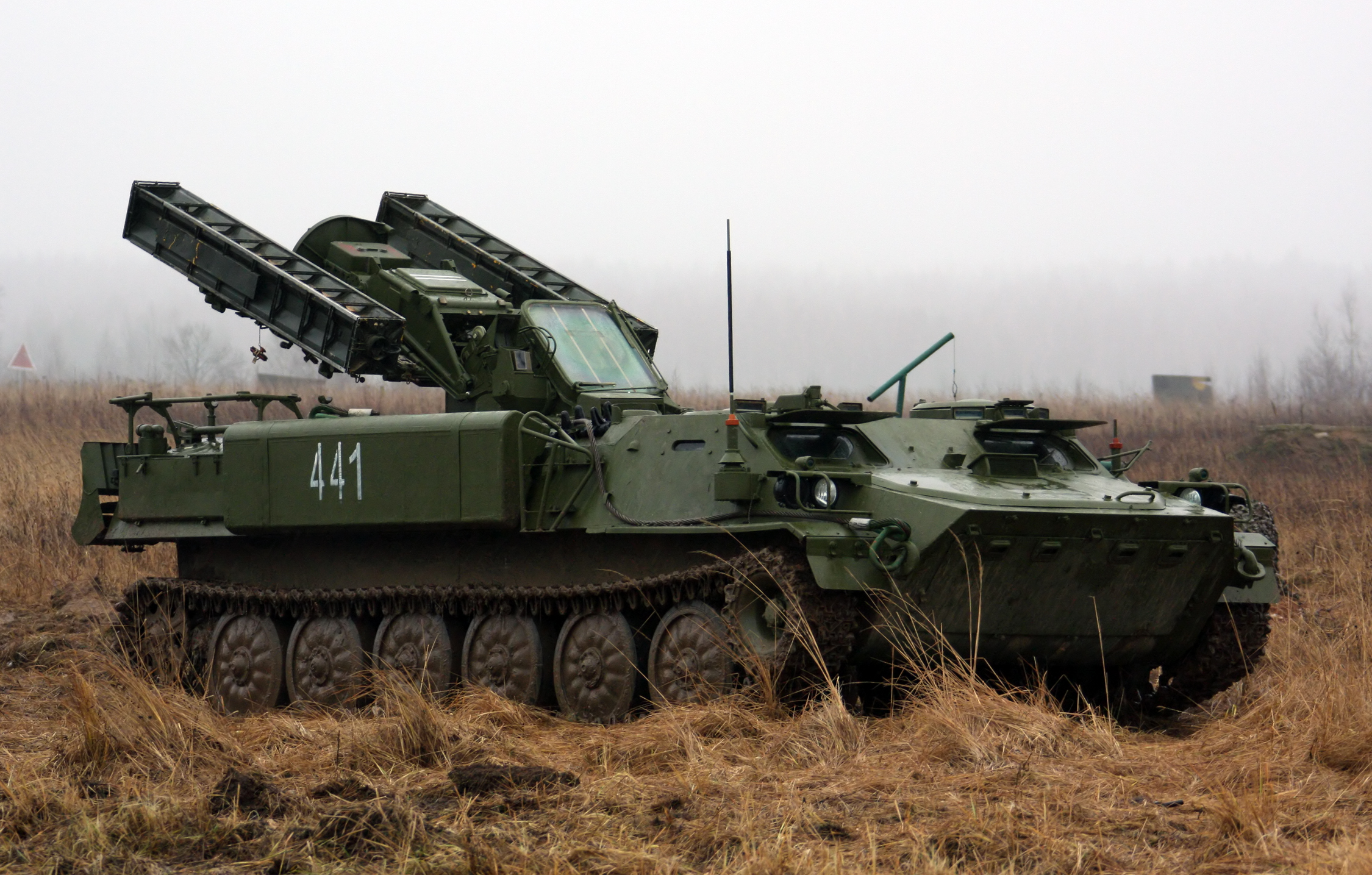 9A34 Strela-10 combat vehicles